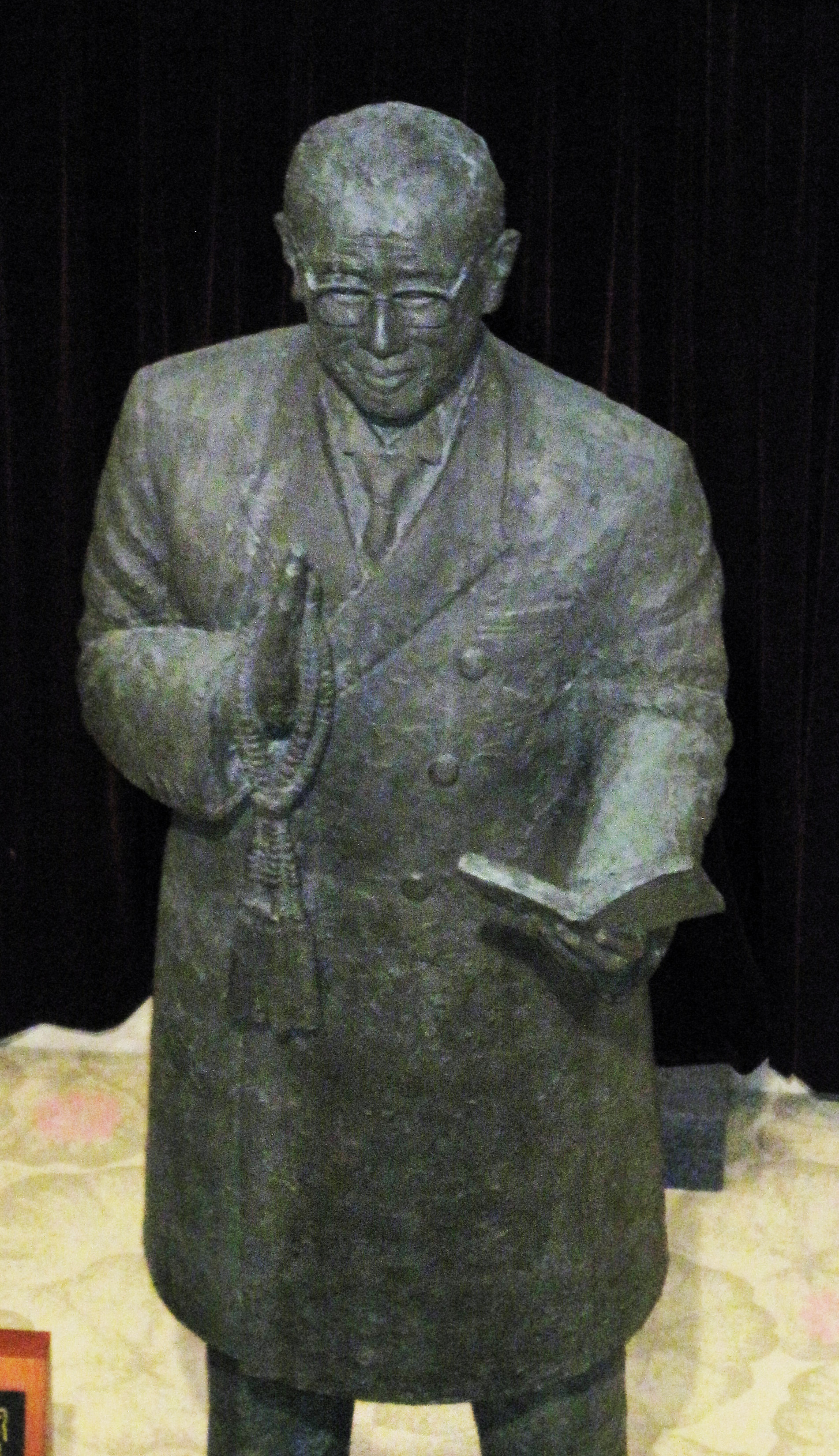 Photo of a statue of Nikkyo Niwano located in the 2nd Pilgrimage Hall at Rissho Kosei-kai Headquarters.